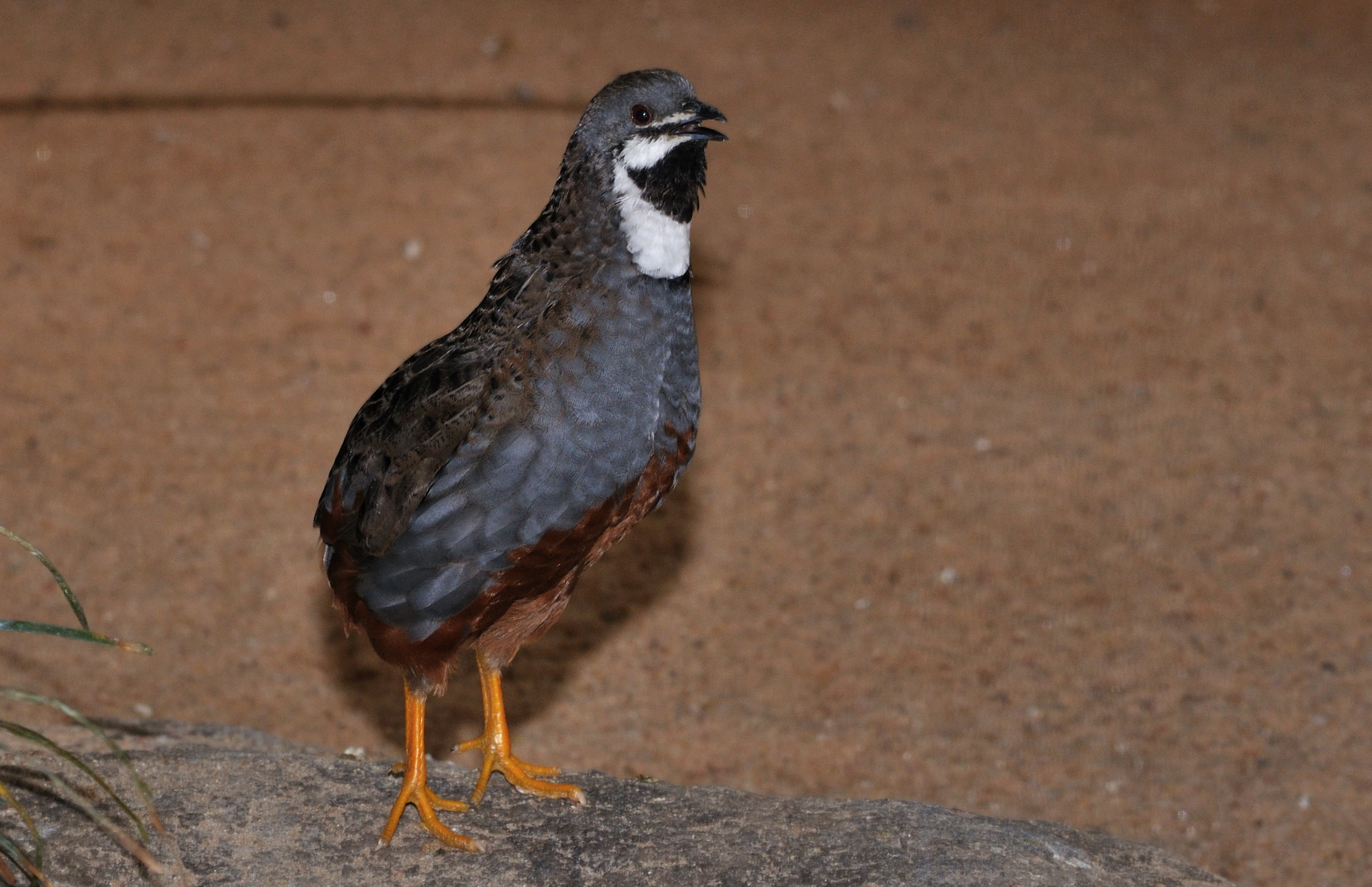 Asian Blue Quail (Coturnix chinensis) in the Wilhelma, Stuttgart, Germany.